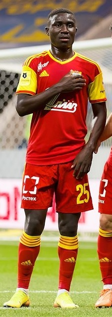 Kings Kangwa with FC Arsenal Tula in a game against FC Rostov.